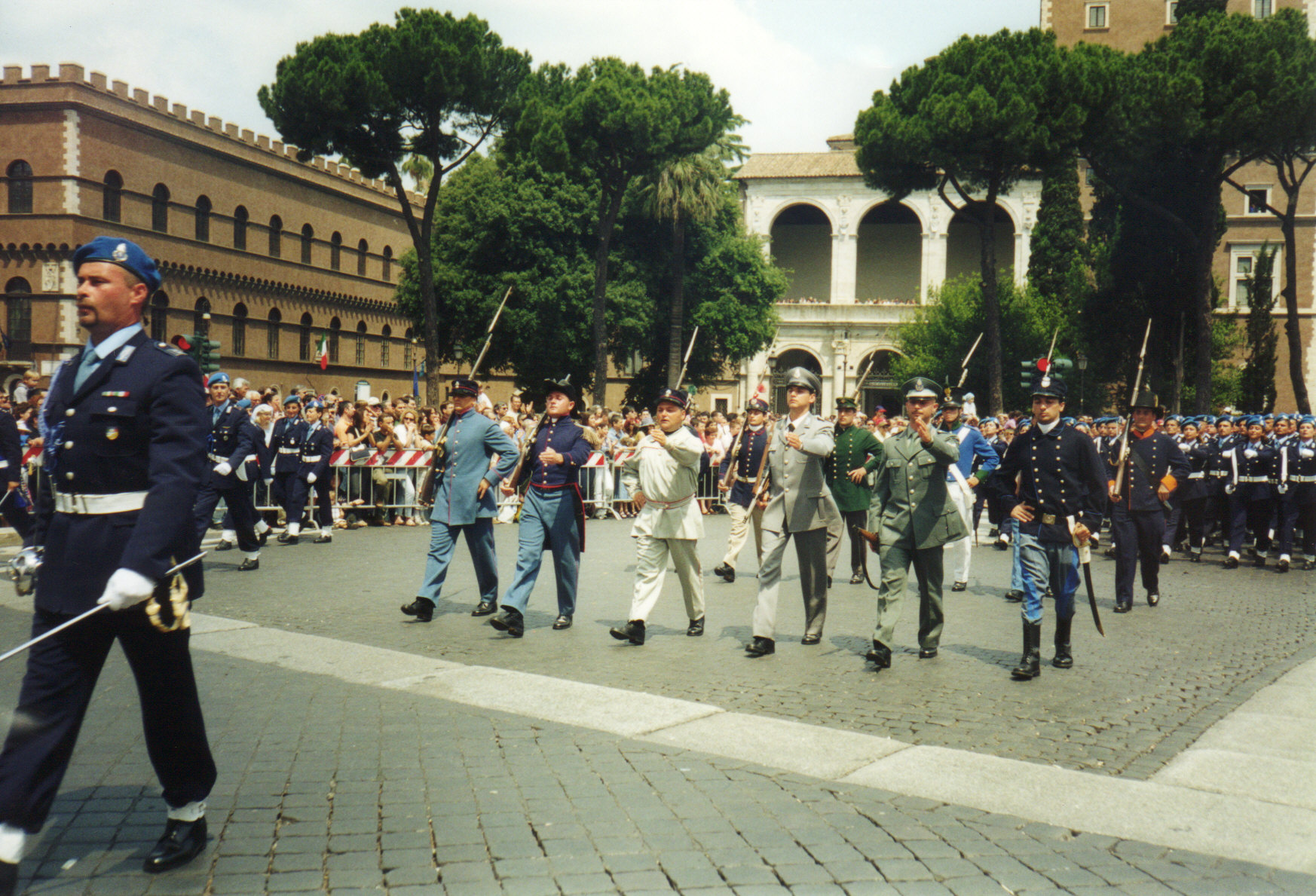 Army parade of Republic Day, Rome (Italy).